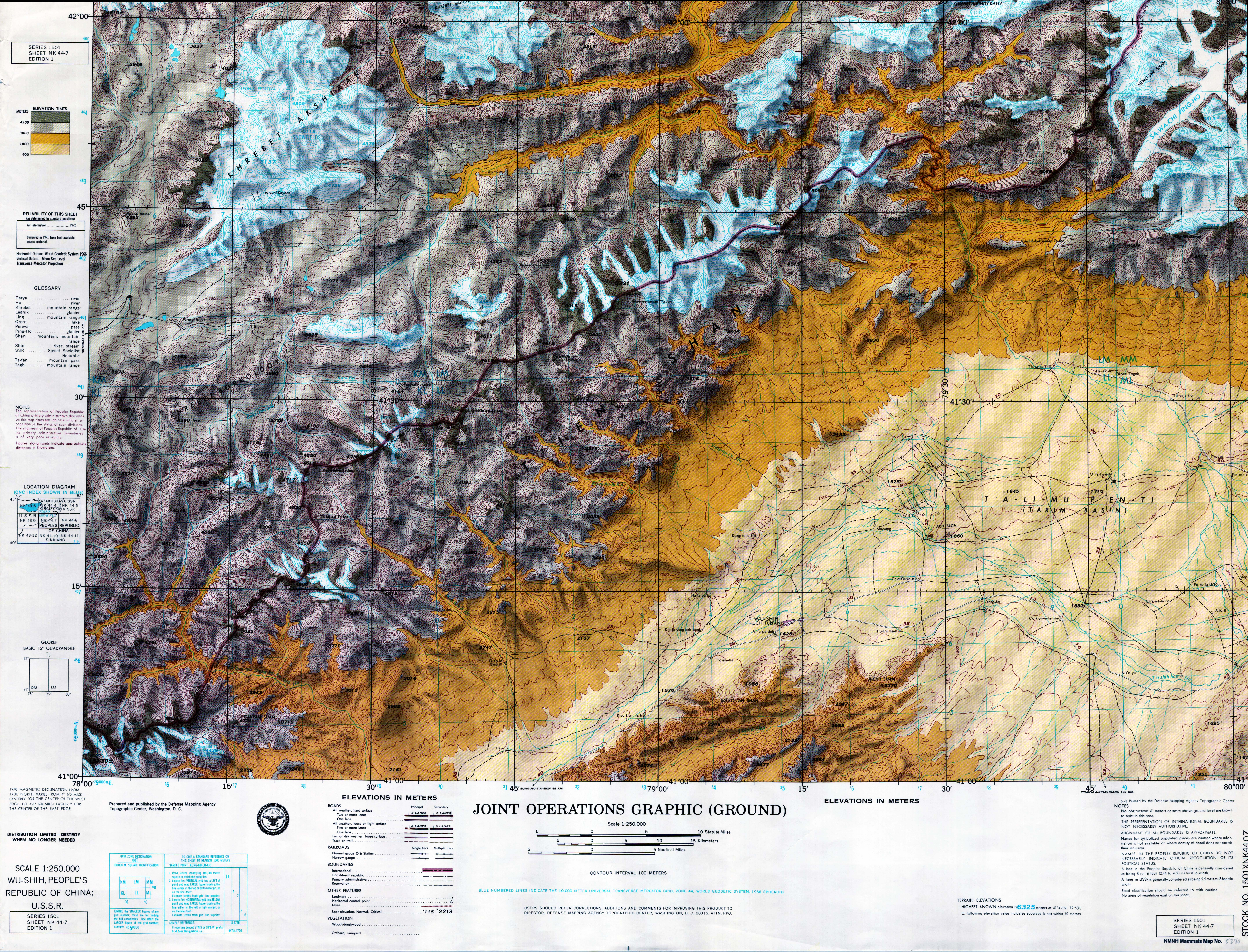 Map including Uqturpan (Wu-shih, Uch Turfan), Aksu Prefecture, Xinjiang, China, NK-44-7 Wu-Shih China 1973, Joint Operations Graphic (Ground)